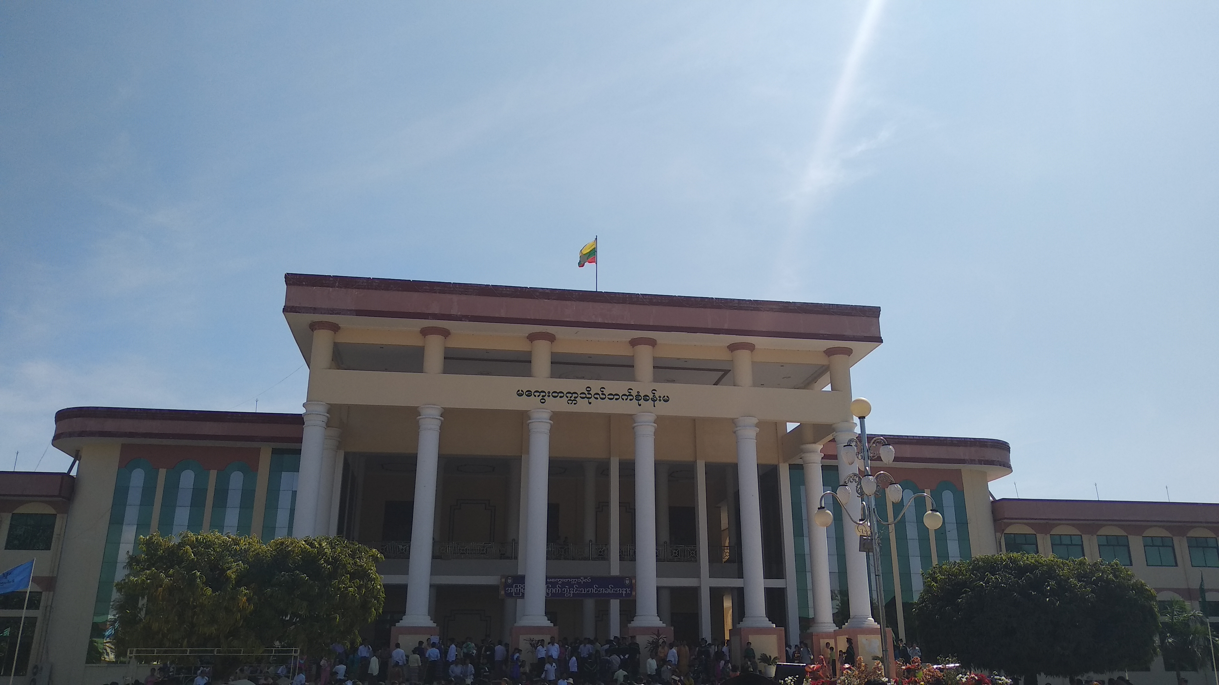 Magway University multipurpose hall မြန်မာဘာသာ: မကွေးတက္ကသိုလ် ဘက်စုံခန်းမ